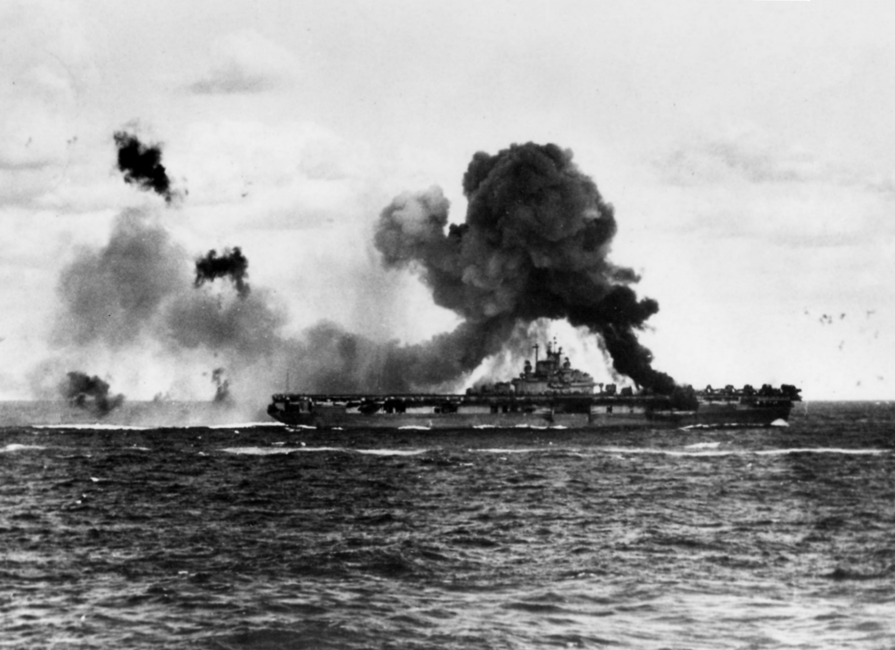 The U.S. Navy aircraft carrier USS Intrepid (CV-11) burning after the ship was hit by two Japanese kamikaze aircraft, 16 April 1945.